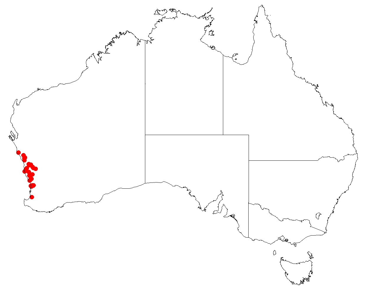 Daviesia divaricata occurrence data downloaded from Australasian Virtual Herbarium, 30 May 2018